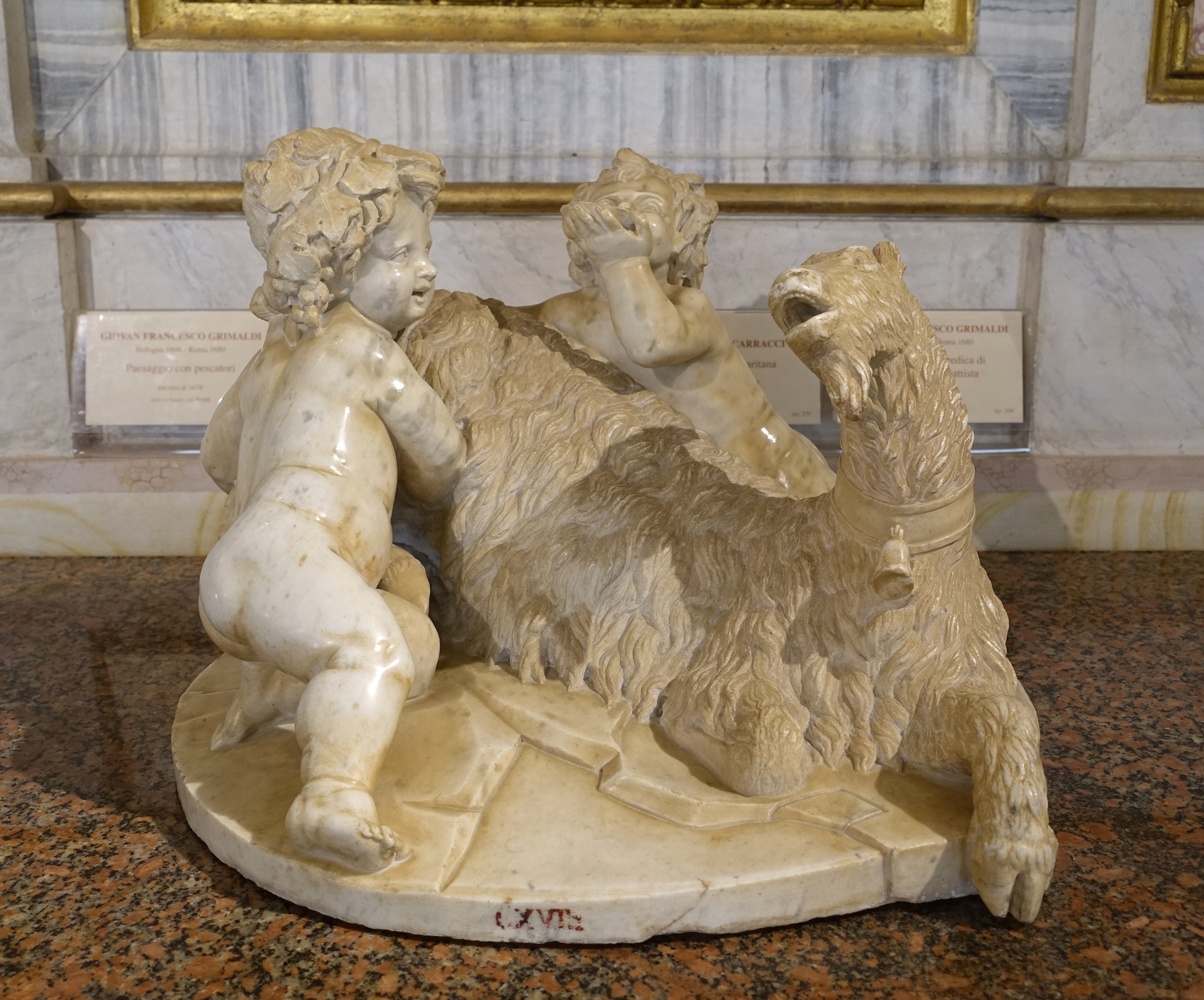 The Goat Amalthea with the Infant Jupiter and a Faun, by Gian Lorenzo Bernini, 1609-1615, marble - Galleria Borghese - Rome, Italy.